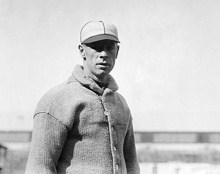 "Long Tom Hughes, Washington, AL (baseball)" A 1911 image, from the Bain News Service, of Long Tom Hughes, a baseball player.